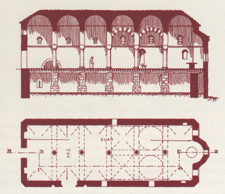 Megala Meteora